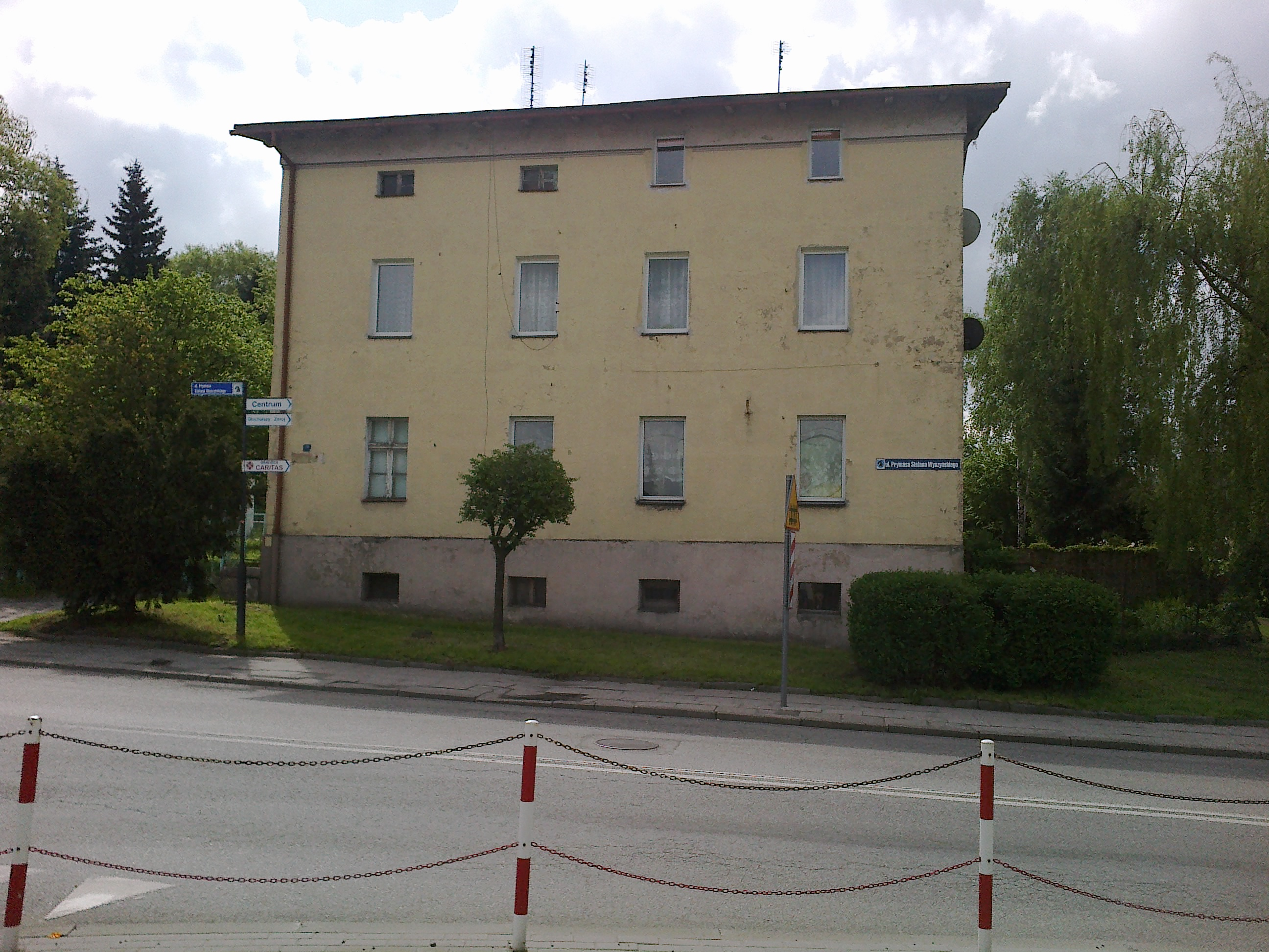 10a Prymasa Stefana Wyszyńskiego Street in Głuchołazy